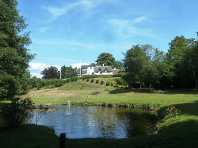 The property Sølyst in Vedbæk North of Copenhagen, Denmark